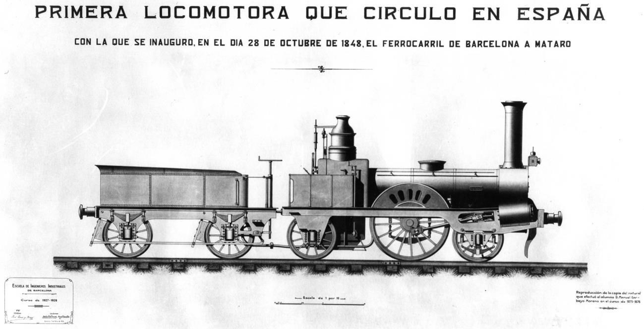 Boceto de la locomotora La Mataró